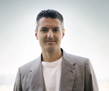 Picture of James Palumbo